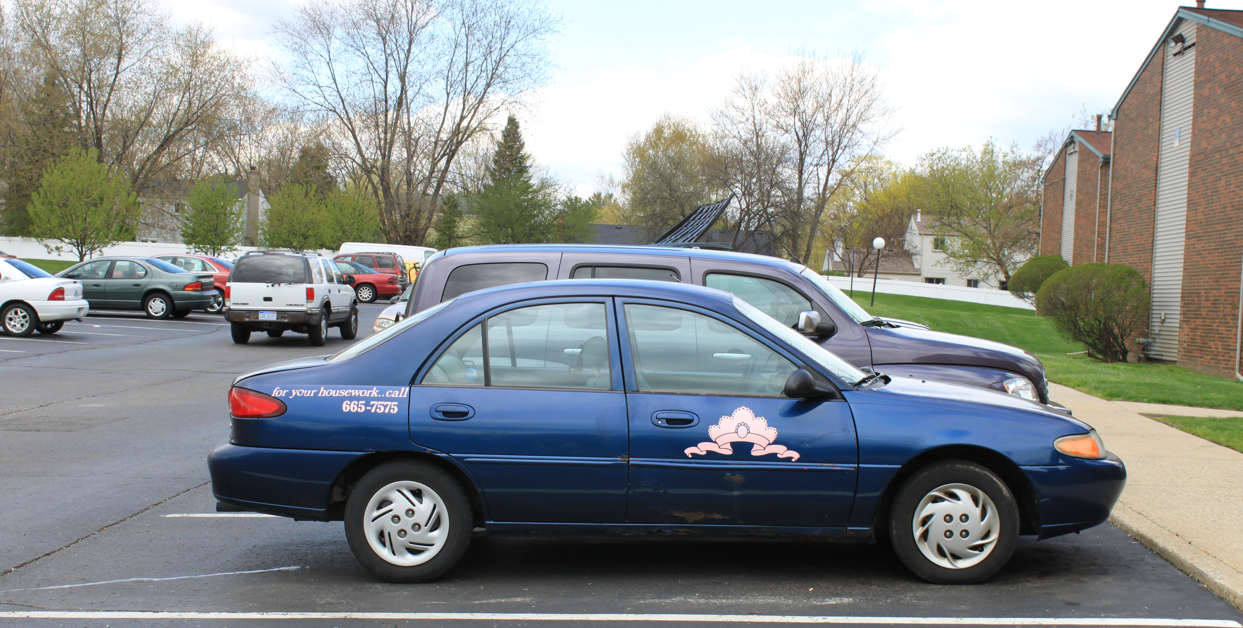 Molly Maid Ford Escort "maid car", Fairway Trails Apartments, 218 South Hewitt, Ypsilanti Township, Michigan.